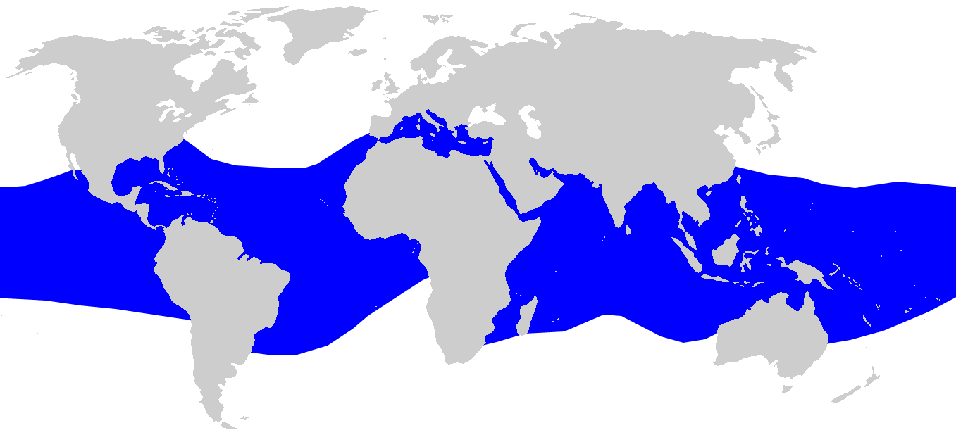 Distribution map for Carcharhinus falciformis